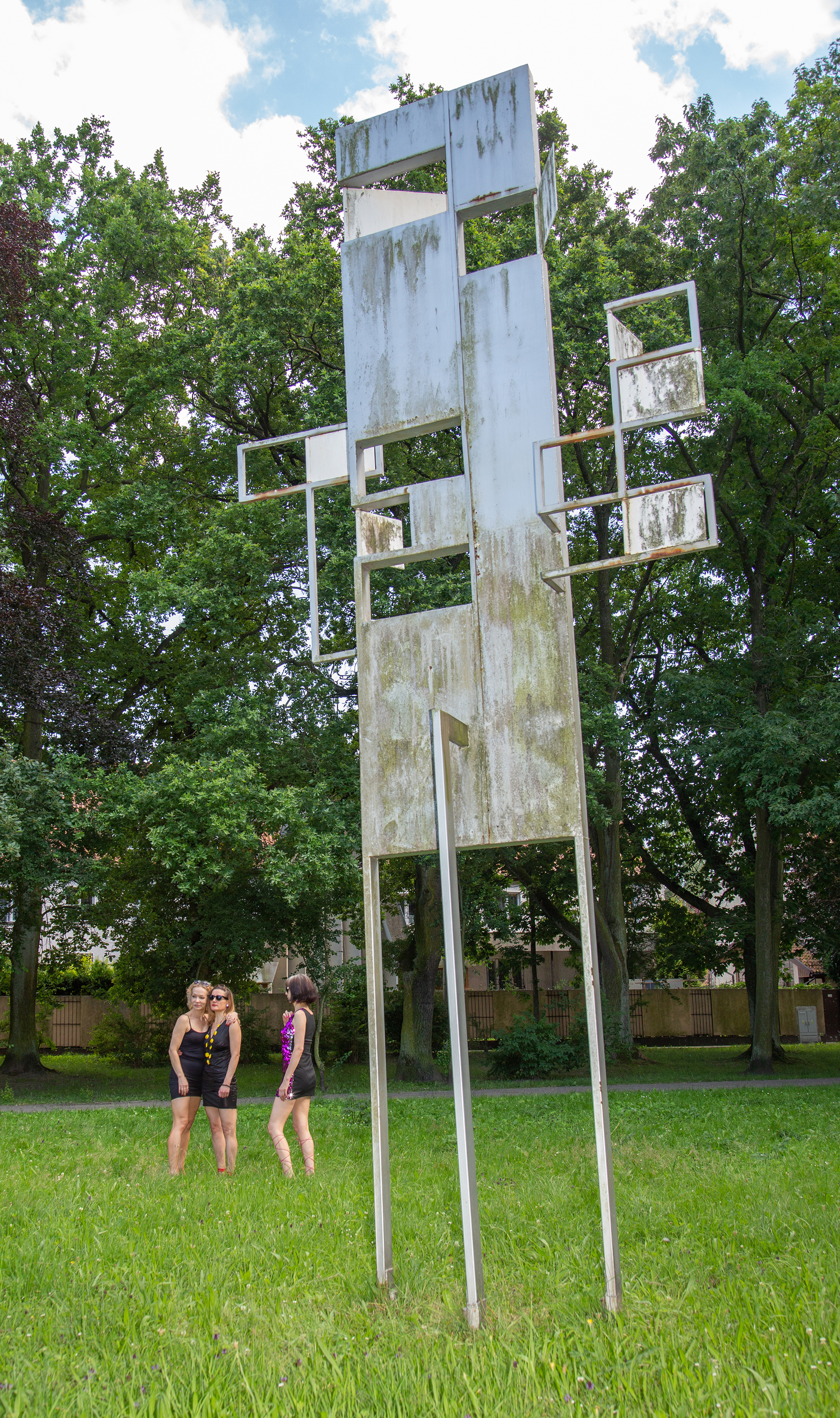 A kinetic form is 8 meters high, created by Adam Marczyński (collaborators: M. Klaus and J. Rakowski) during the I st Biennial of Spatial Forms in Elbląg (1965). The sculpture has flaps moved by the force of the wind, arranged vertically in relation to rectangular frames. Located in M. Kajki Park in Elbląg. In the background, artists: Agata Zbylut and Iwona Demko with curator Karina Dzieweczyńska, while working on the project entitled "Congress of dreamers / Kongres Marzycielek” carried out at the Art Center Gallery EL.